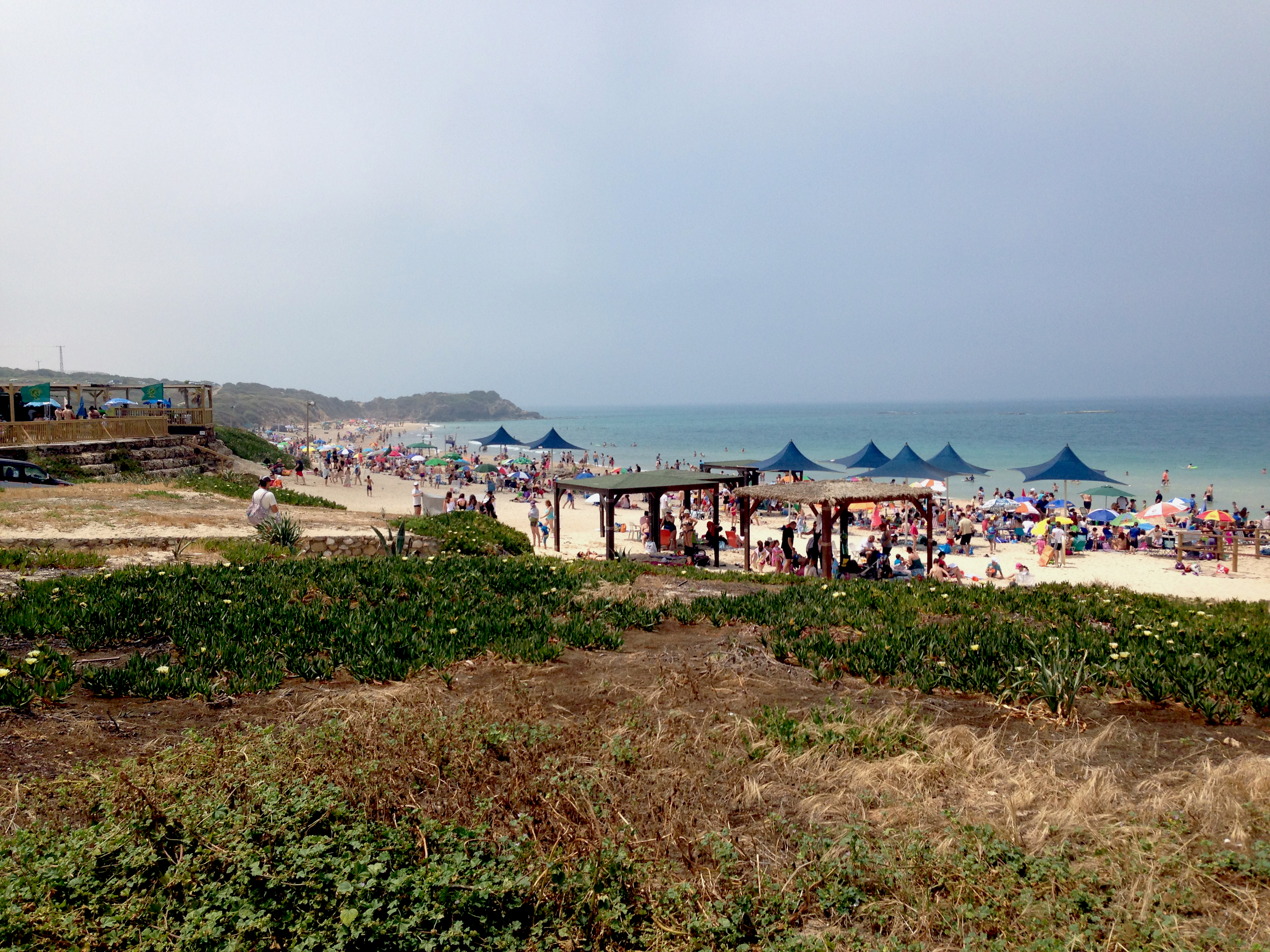 Palmachim beach, Israel.